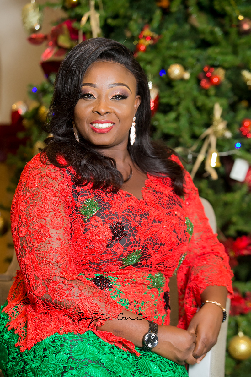 Christmas photoshoot, shot on location at Protea Hotel, Ikeja, by Soji Oni, directed by Ayeesha